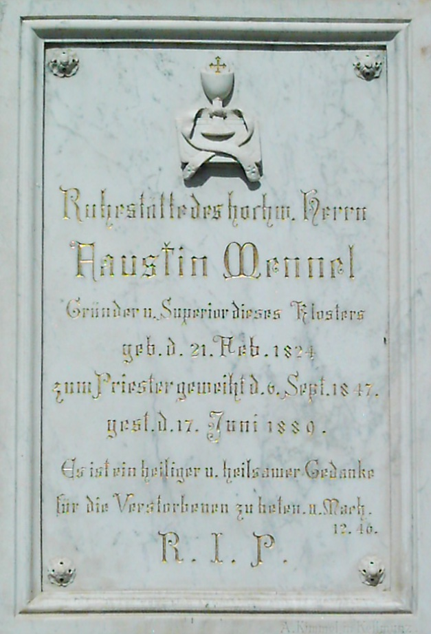 Memorial for Faustin Mennel in the Abbey of Bonlanden, Germany